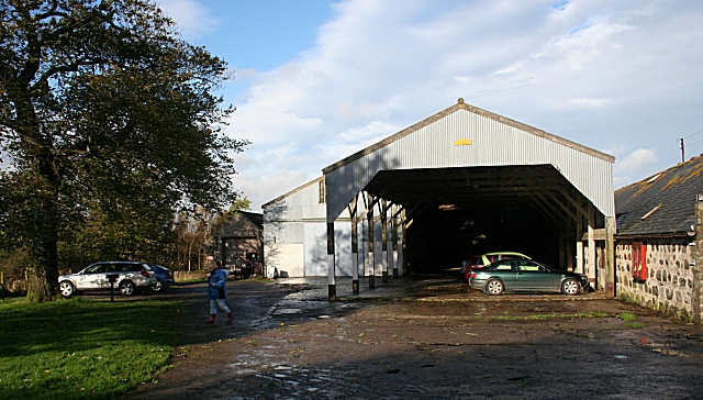 Starnafin Starnafin is the headquarters of the RSPB Loch of Strathbeg Nature Reserve. The visitor centre is in the part of the building in the shade, to the left of the closed barn. This has a picture window with a wide view over Starnafin Pool.